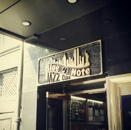 Blue Note Jazz Club is a jazz club and restaurant located at 131 West 3rd Street in Greenwich Village, New York City.